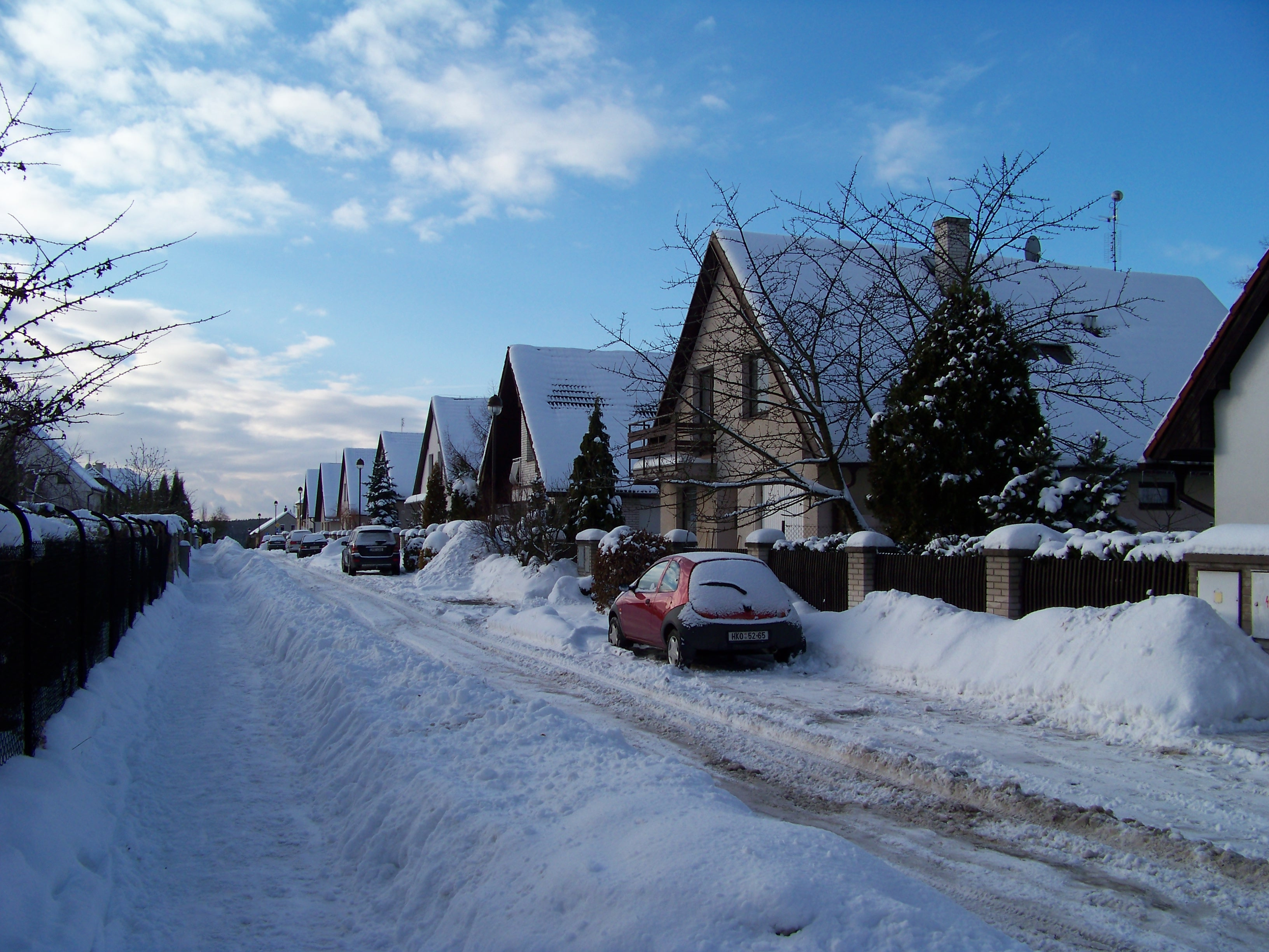 Hradec Králové-Kluky, the Czech Republic. Prof. Smotlachy Street from Husova Street. - Google Maps - Google Earth